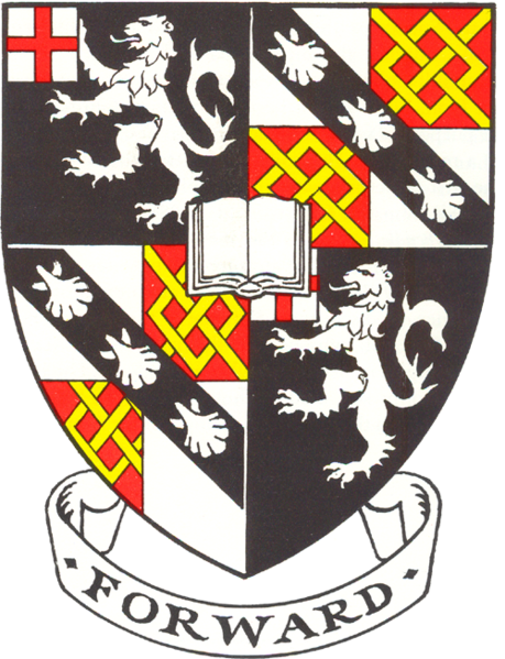 Shield of Churchill College, Cambridge.